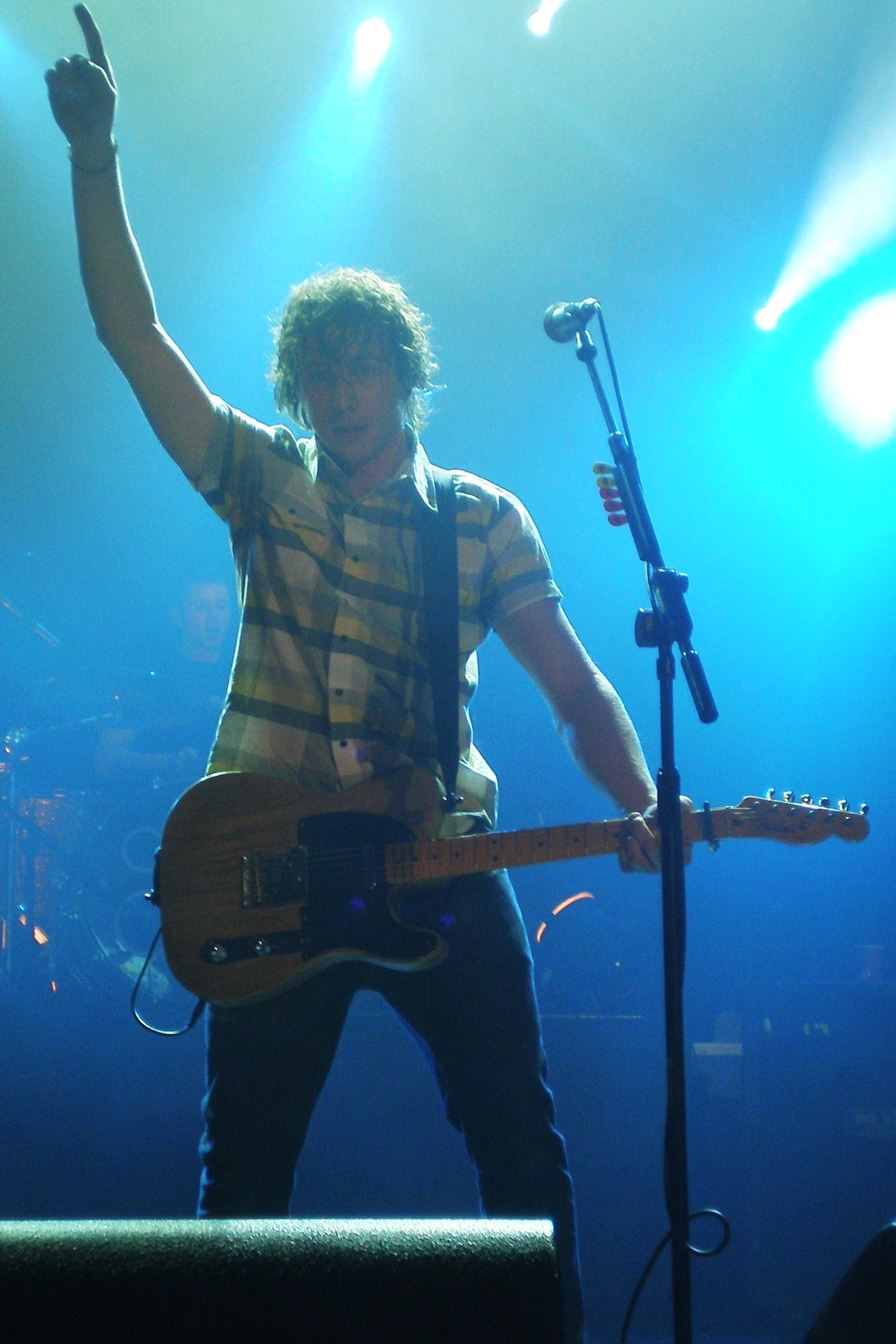 Danny Jones of McFly performing at iTunes Live iTunes Festival.